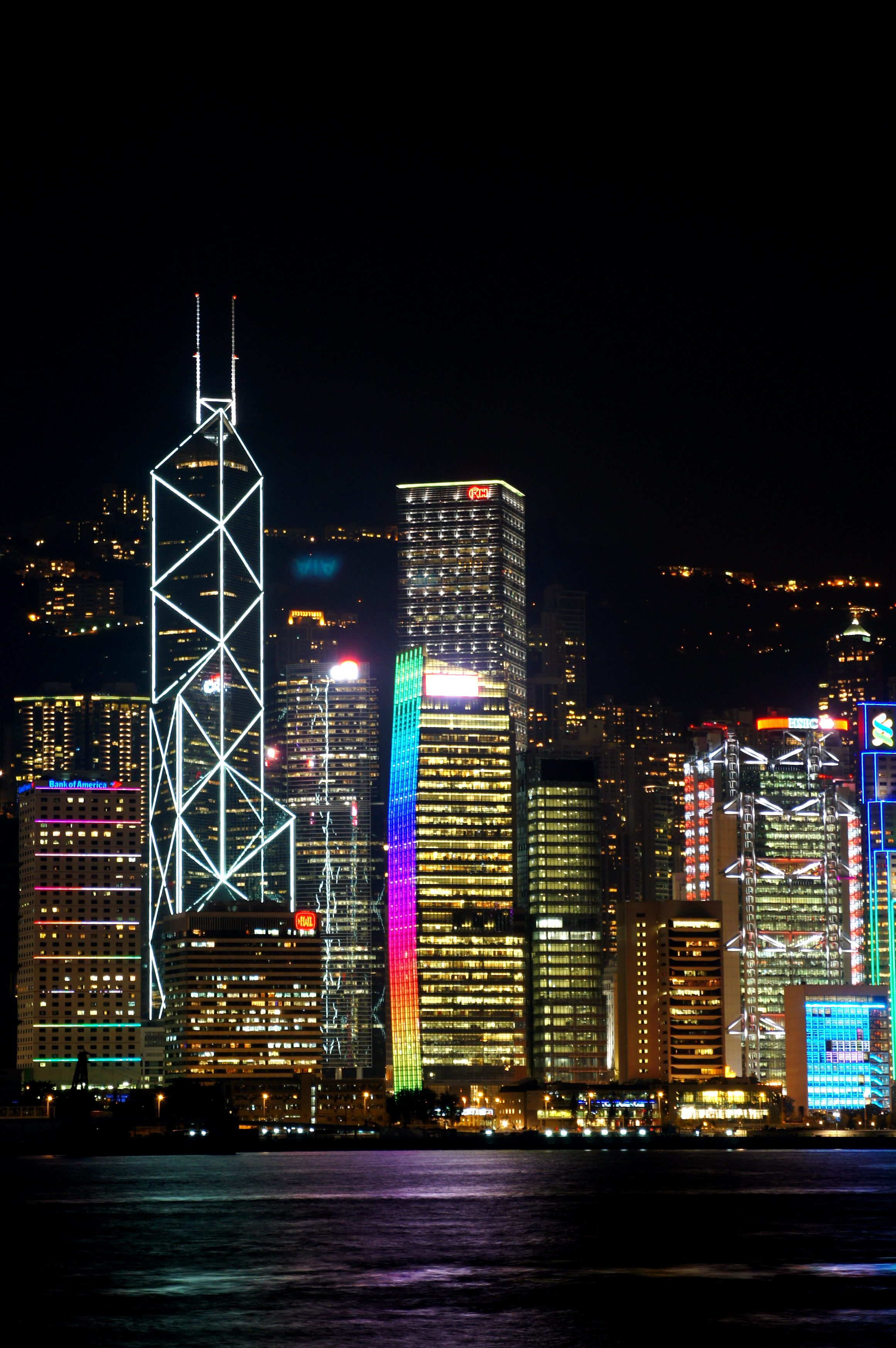 Buildings in Hong Kong Central and Admiralty at night.